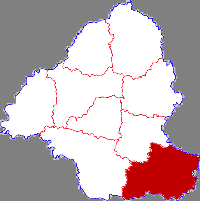 Location of Shan county in Heze City, China